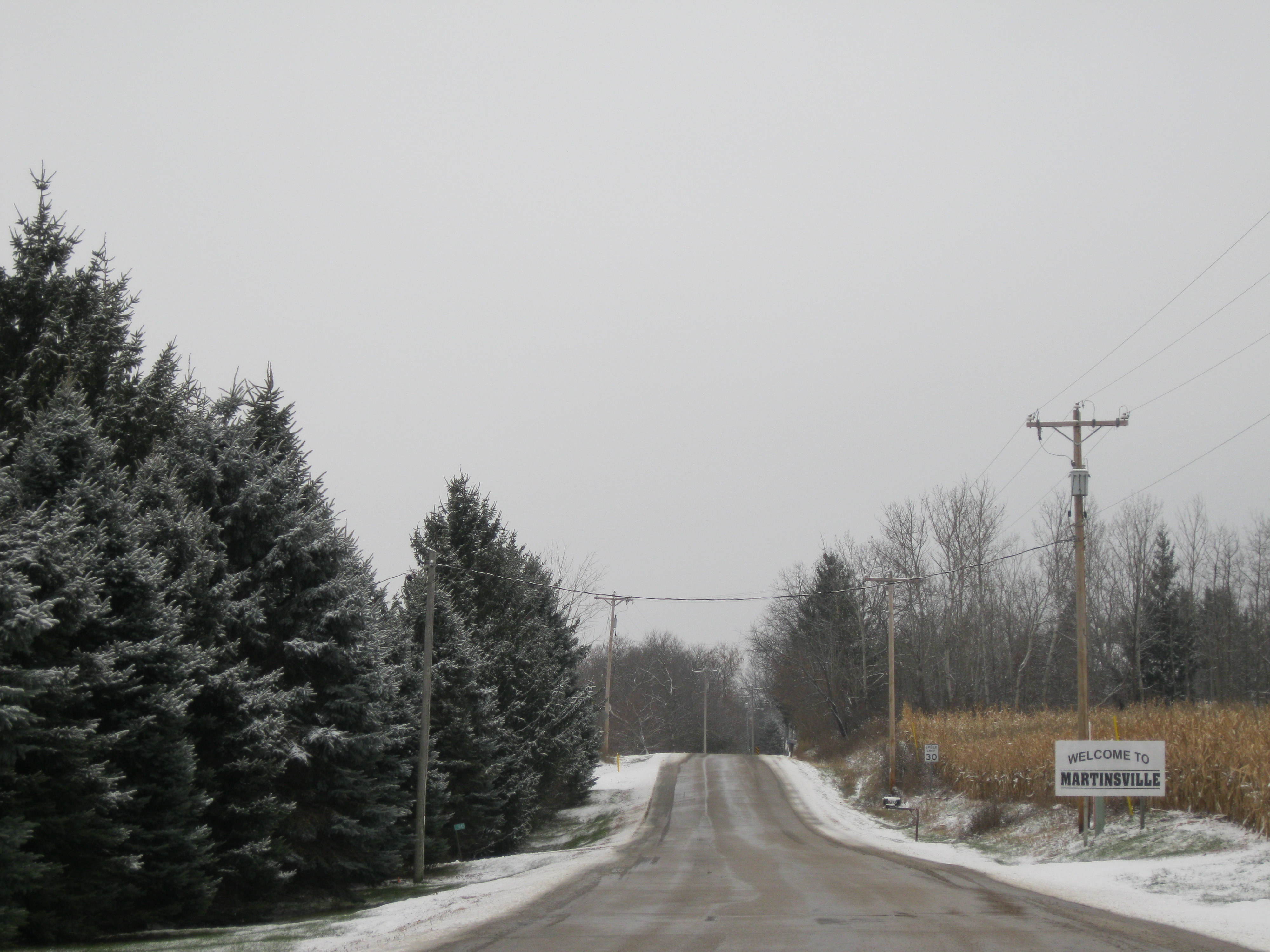 Welcome sign on the road into Martinsville, Wisconsin.